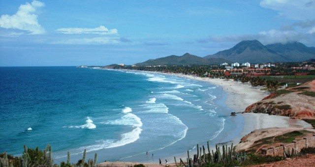 El Agua Beach. Margarita Island, Nueva Esparta State. Venezuela.